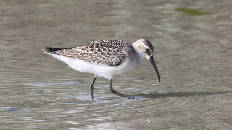 Curlew Sandpiper (Calidris ferruginea)